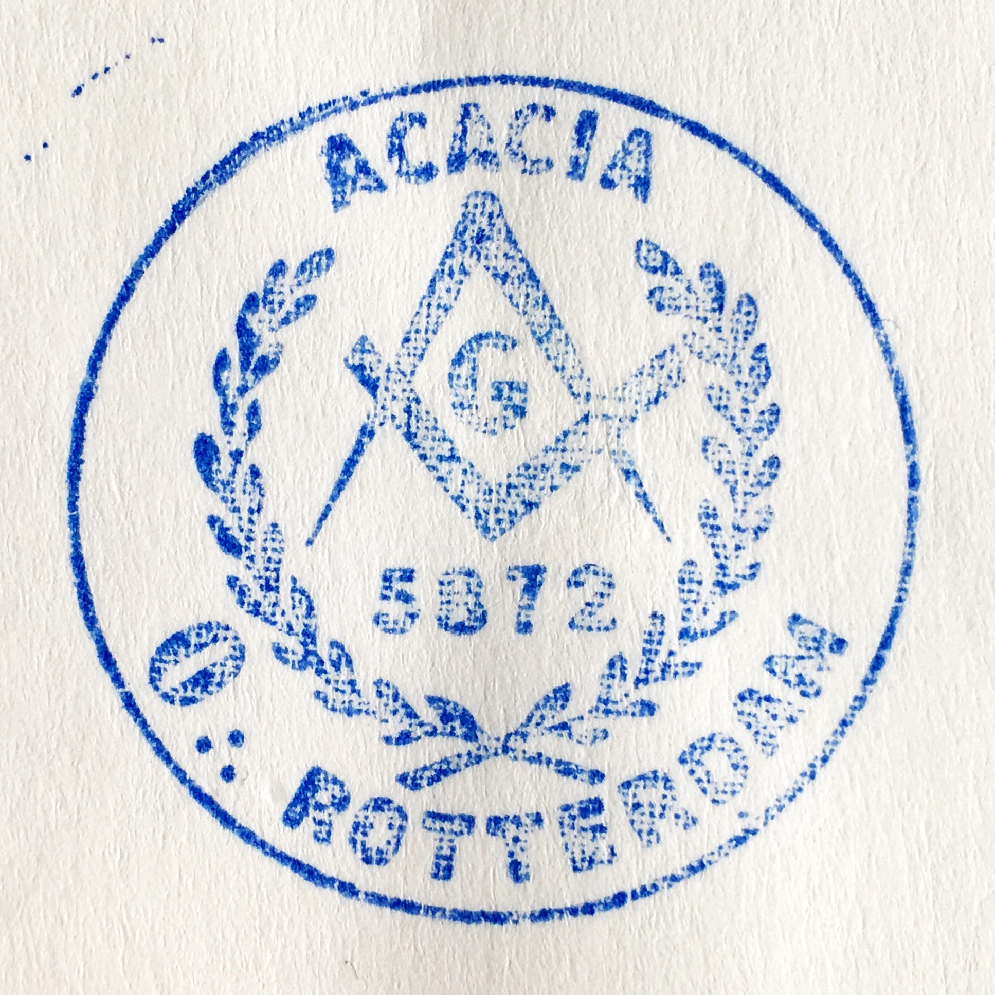 Seal of a Dutch Masonic Lodge